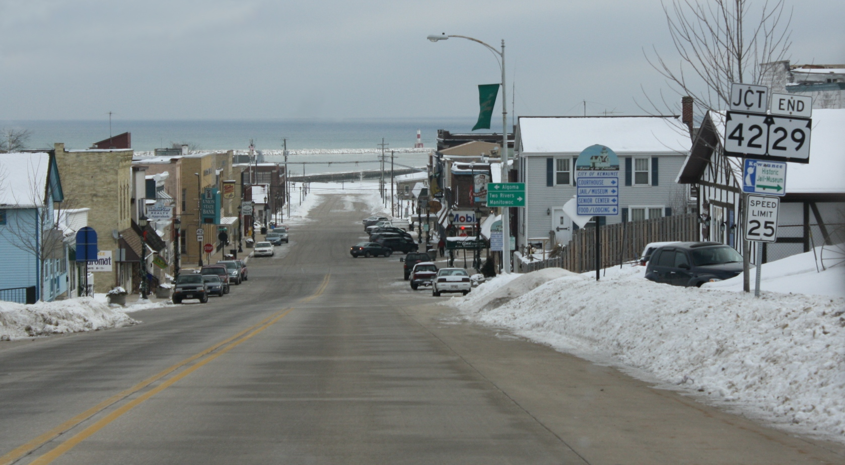 Looking east at the terminus for Wisconsin Highway 29 in Kewaunee, Wisconsin. Lake Michigan is visible in the background.